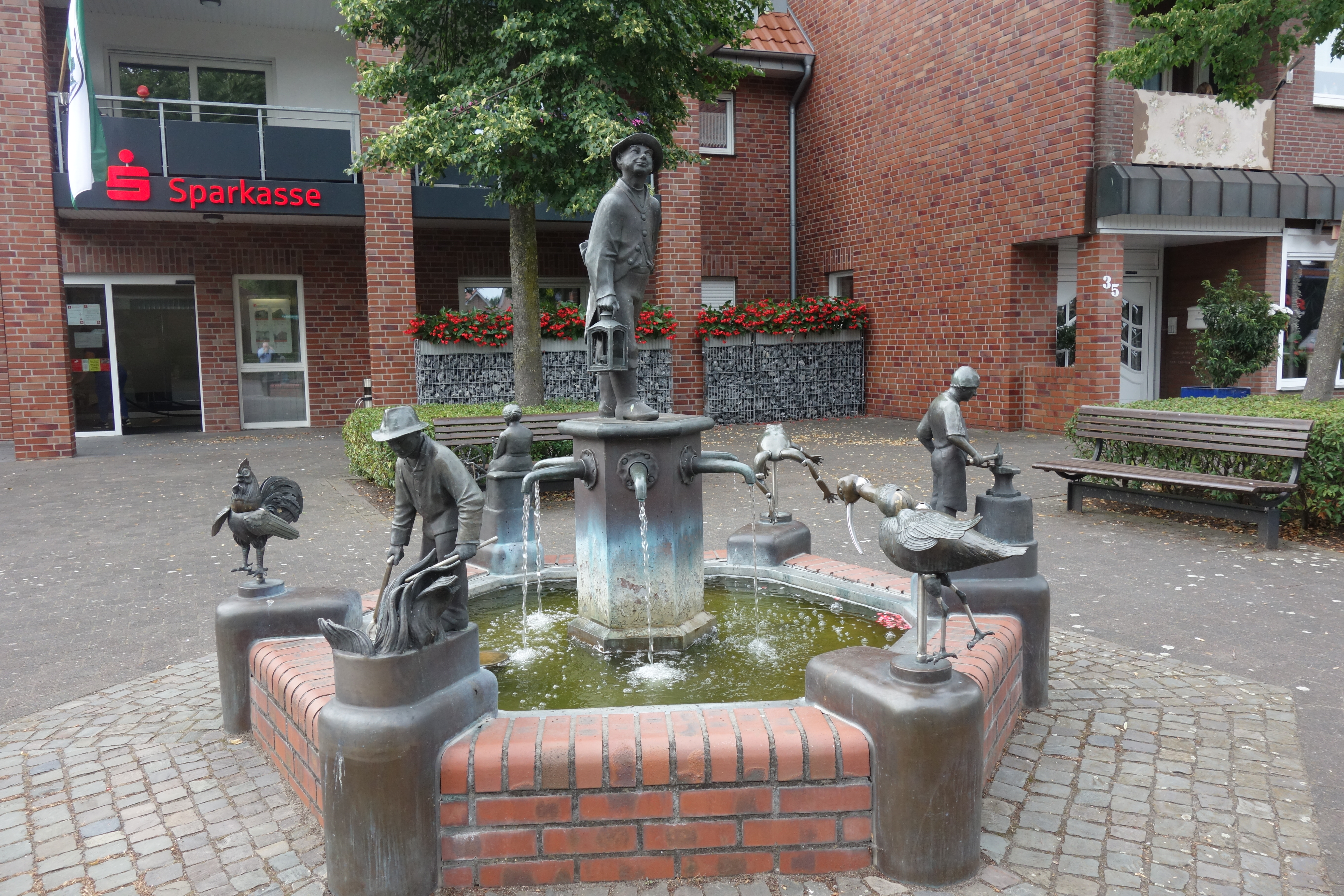 Fountain in Lünten (Germany)